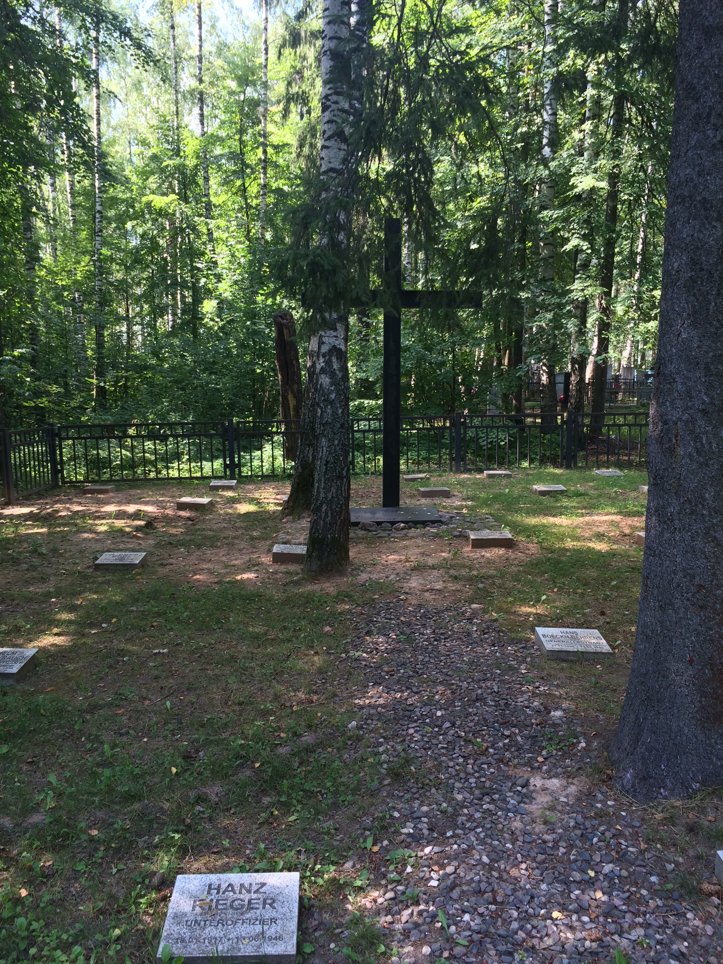 Cherntsy Memorial